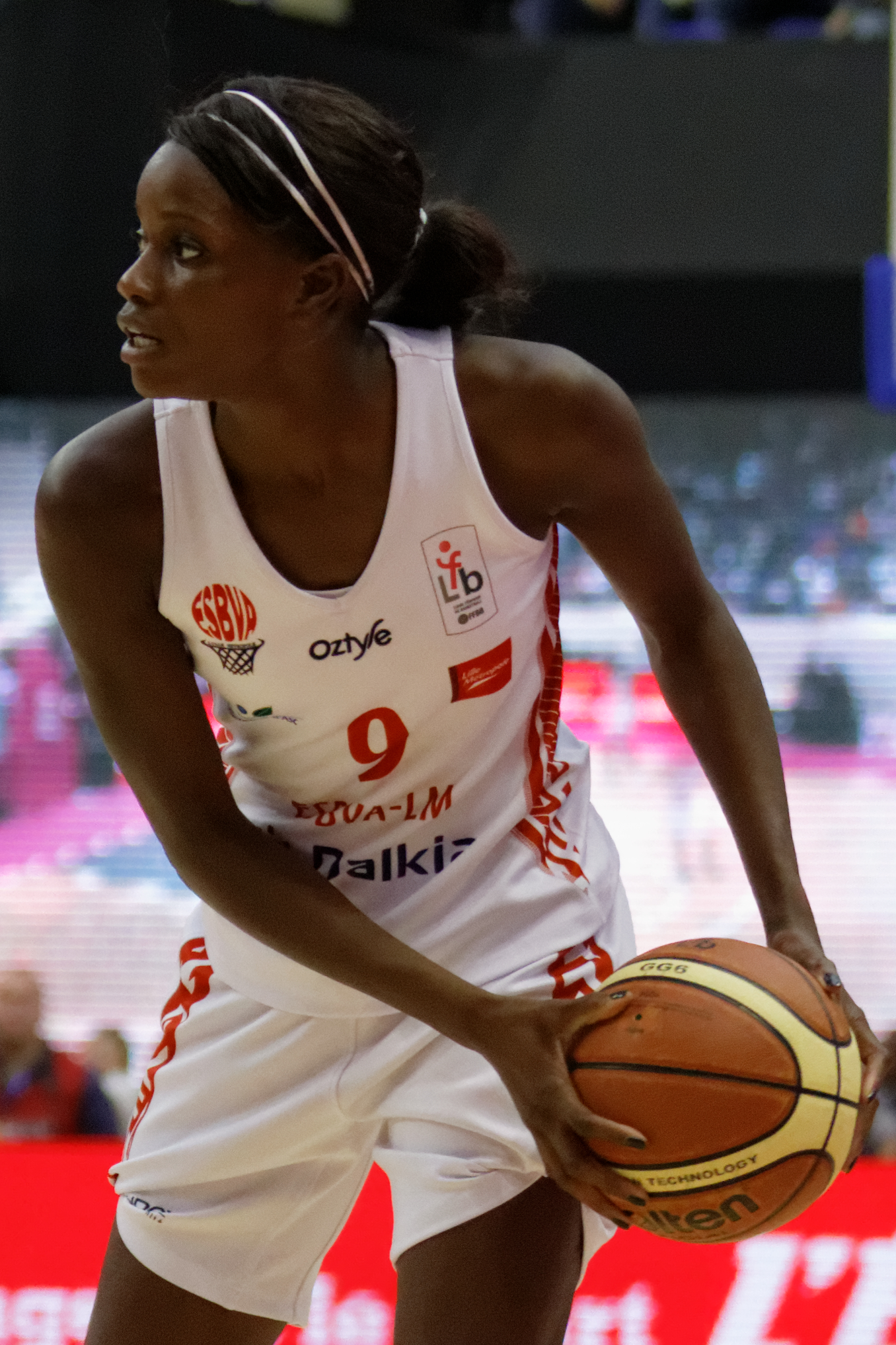 Open LFB, Villeneuve d'Ascq-Basket Landes, October 5th, 2013.